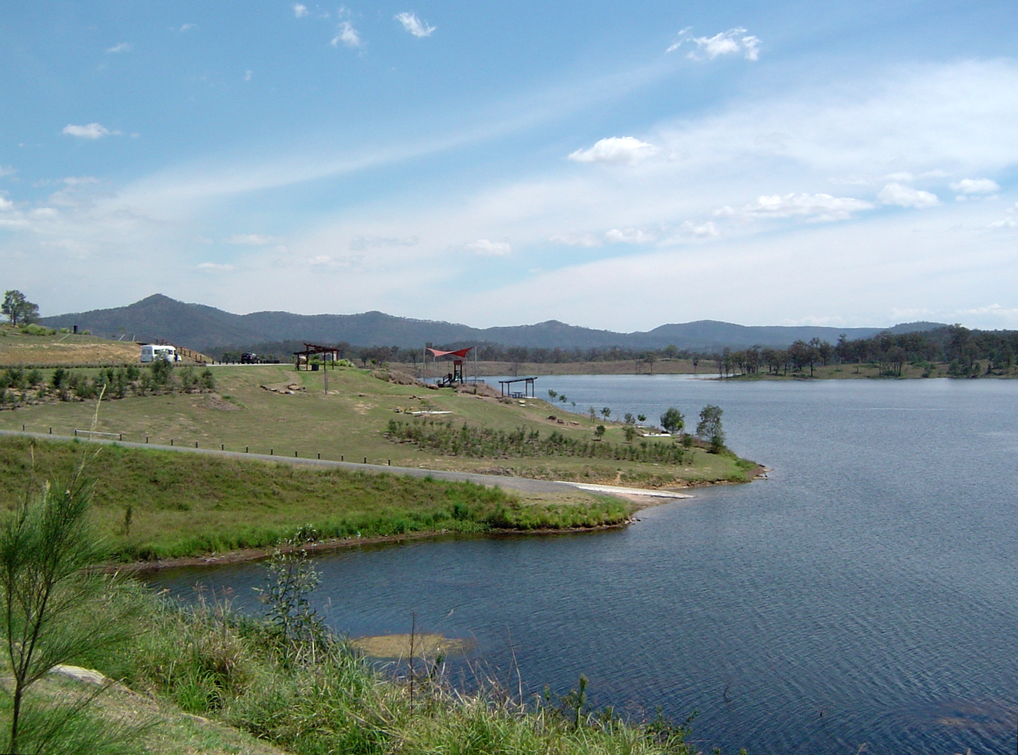 Picnic area and boat ramp at Wyaralong Dam near Beaudesert, Queensland, Australia.